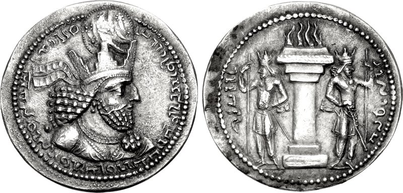 Coin of Shapur I, the second king of the Sasanian Empire.